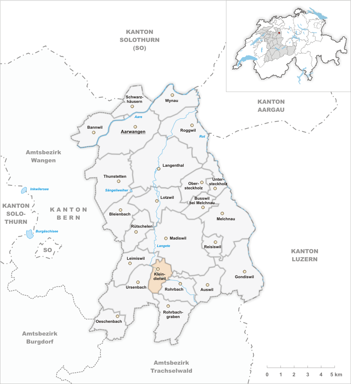 Municipality Kleindietwil